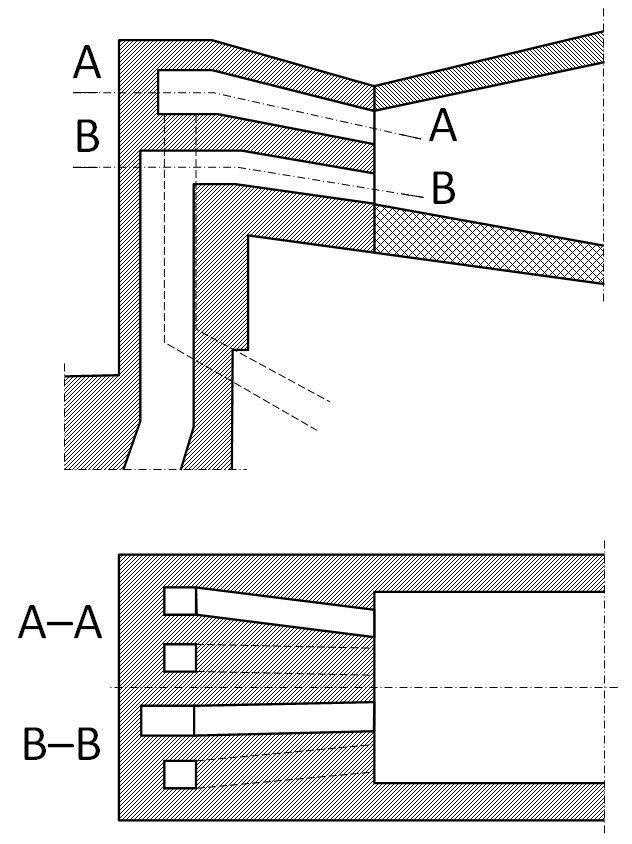 Siemens fire head for open hearth furnaces